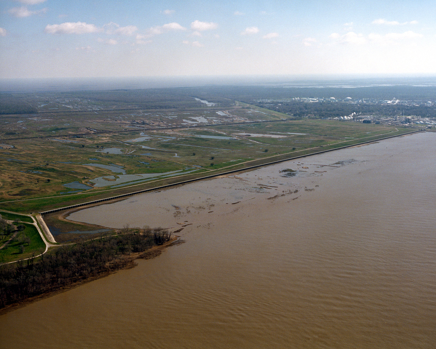 The opening of the Bonnet Carré Spillway on the Mississippi River. The spillway is designed to spill water from the river into Lake Pontchartrain during flooding of the river. The spillway is located about 12 miles (20km) west (upriver) of New Orleans, Louisiana, USA. View is to the northeast. Lake Pontchartrain can be seen in the far distance, about 5.5 miles (9 km) distant.